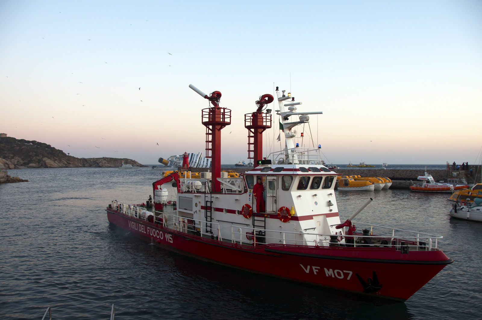 VF M07 of Vigili del Fuoco at the collision of Costa Concordia